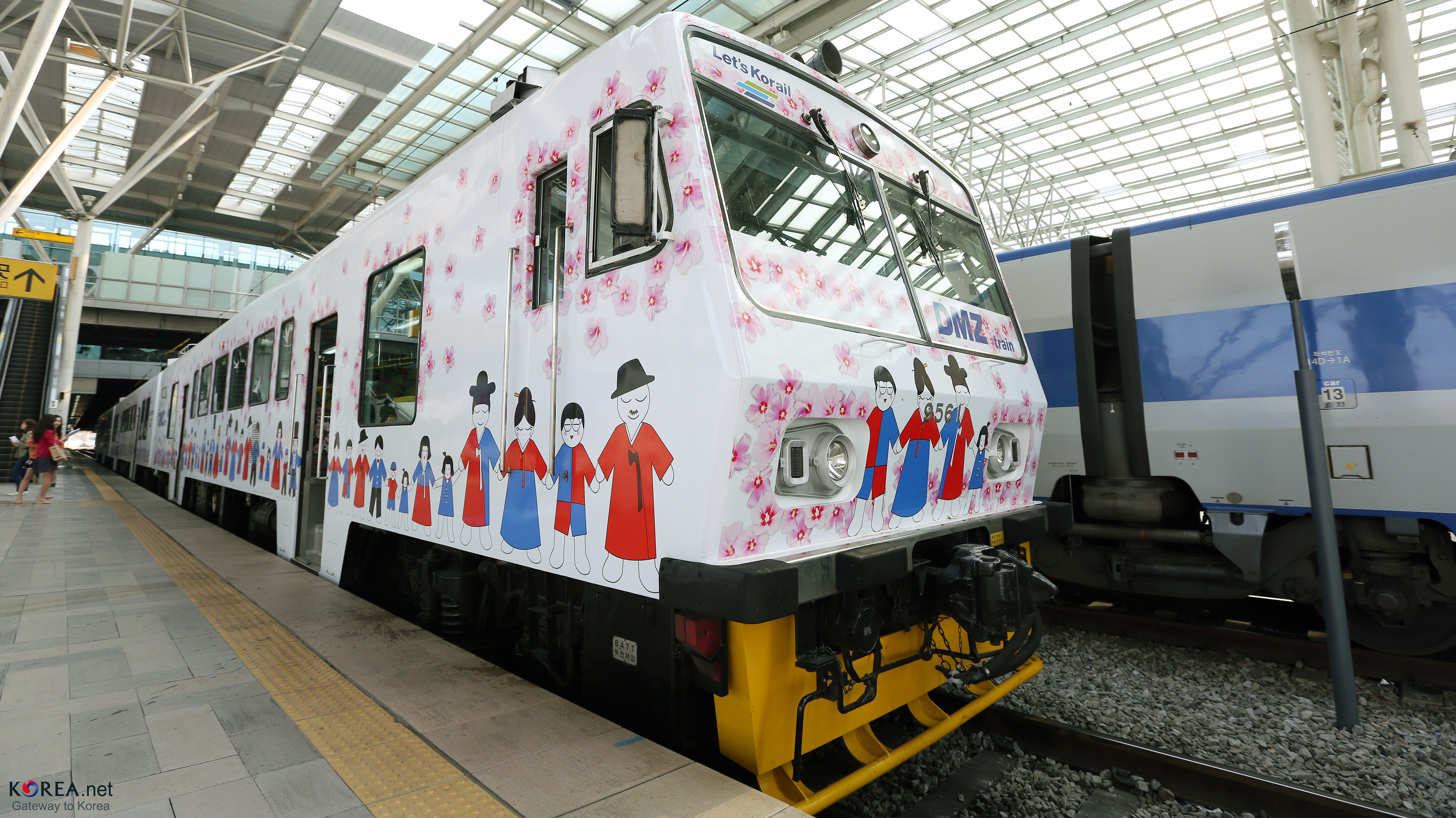 DMZ Train